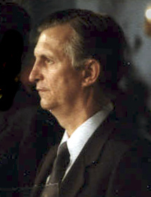 Edward Seaga